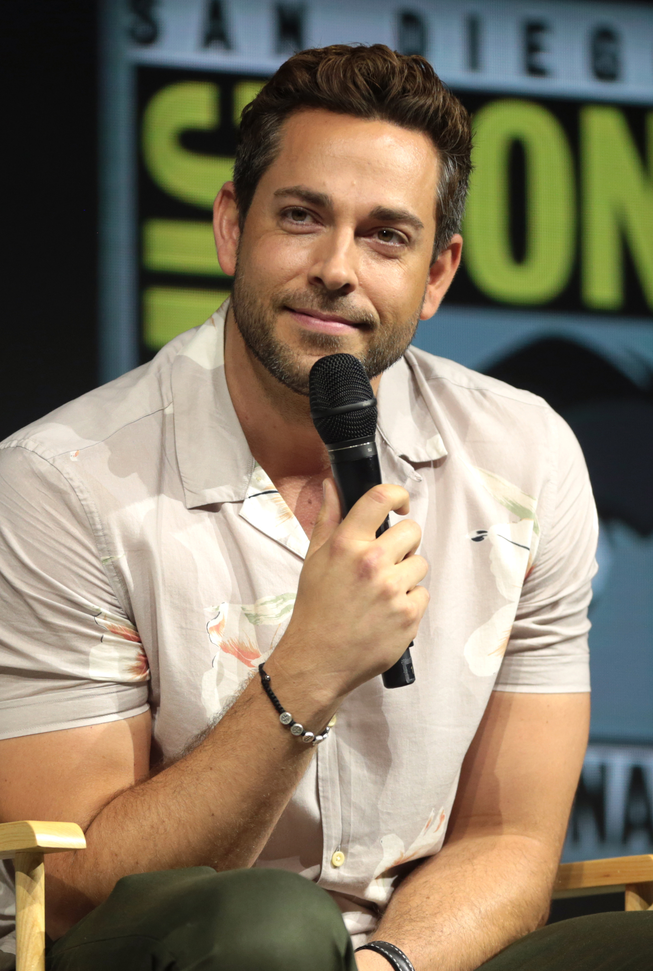 Zachary Levi speaking at the 2018 San Diego Comic-Con International in San Diego, California.